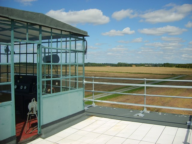 Control Tower Museum at USAAF Framlingham (Parham) View from the roof of the Control Tower Museum of the northern remnants of Runway 35/17 which was part of this vast airfield covering In July 1943 US Army Air Force B17Fs of the 390th Bomb Group started arriving at what had been called Parham Airfield. In 1976 work began on the Control Tower which was restored and opened in 1981 to provide an excellent museum in memory of the 140,000 US airmen who were killed. Also based here is the Museum of the British Resistance Organisation - The Auxiliary Units. Open Sundays and Bank Holidays from March to October and really worth a visit